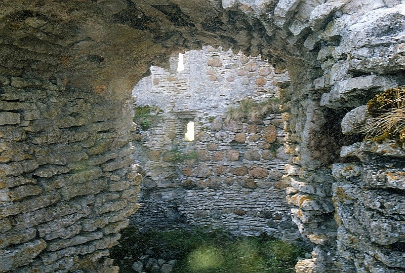 The part of the old fortress of Toolse on the northest Estonia.